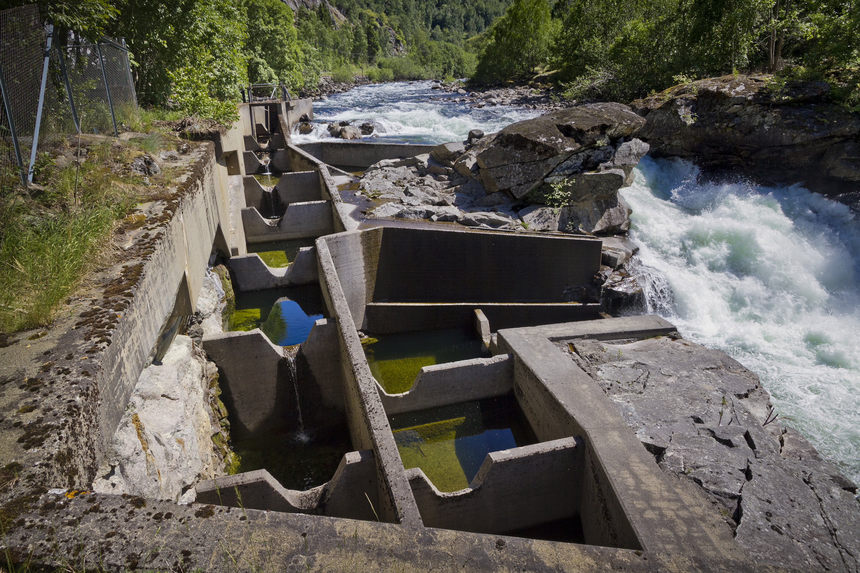 By the Lærdalselvi river in Husum, Lærdalen, Lærdal municiaplity, Sogn og Fjordane, Norway in 2013 June.